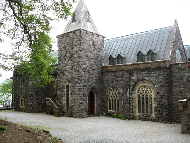 St. Conan's Kirk, Lochawe Some may say this church was a wealthy man's folly others say he was a genius whatever the case St. Conan's is one of the greatest follies in Scotland built by a genius. Walter Campbell started work on the church in 1881 one to allow his mother worship locally rather than travel at her old age. He continually added to the church until his death when his sister Helen took up the mantle. The church contains many features from churches all over Europe. It is now one of the tourist 'hot spots' in Argyll.